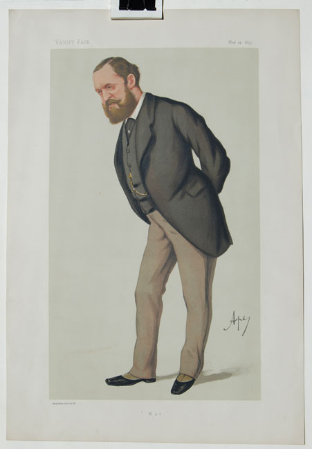 Statesmen No.303: Caricature of The Rt Hon FA Stanley. Caption reads: "War"